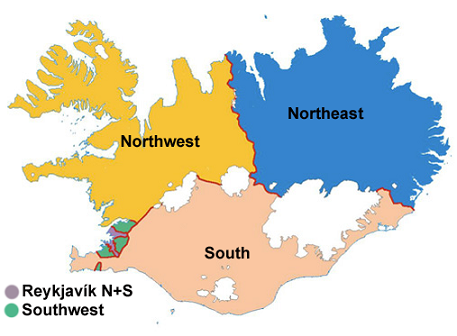 The map is based on one from the website of the Land Survey of Iceland where it is stated that it may be used for any purposes without a special permission.